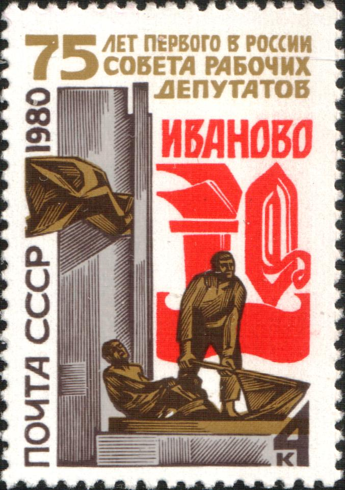 USSR stamp